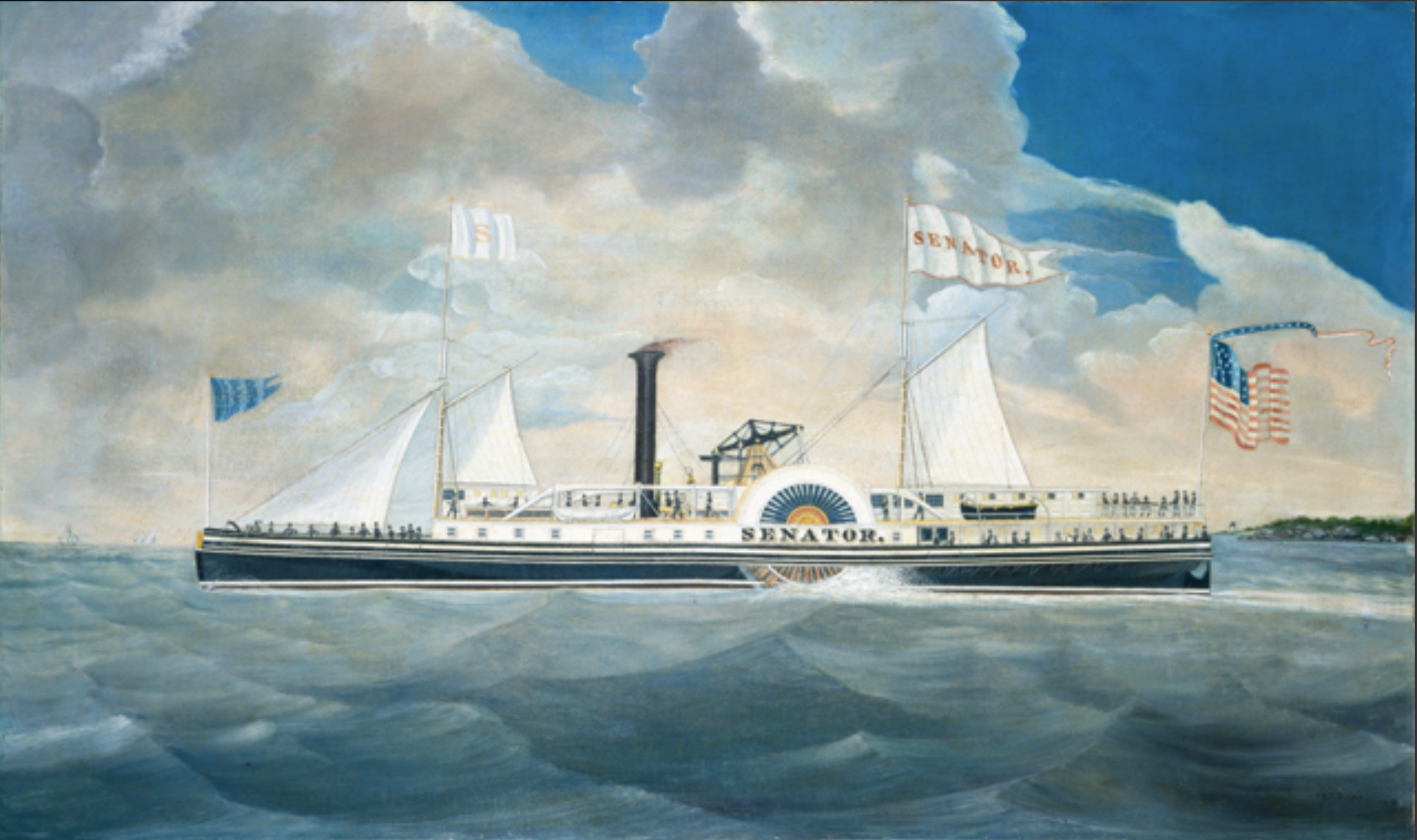 This is an oil painting of the steamer Senator by artist James Bard. It was likely painted shortly after the ship was launched in 1848 in New York.